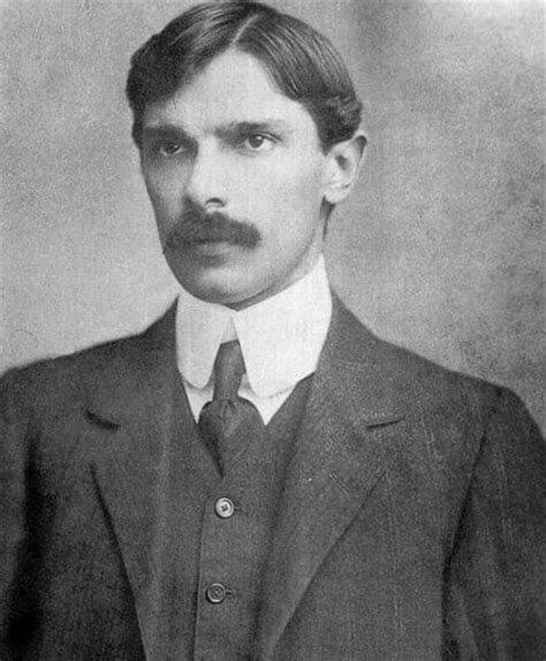 Muhammad Ali Jinnah, as barrister (about age 34)